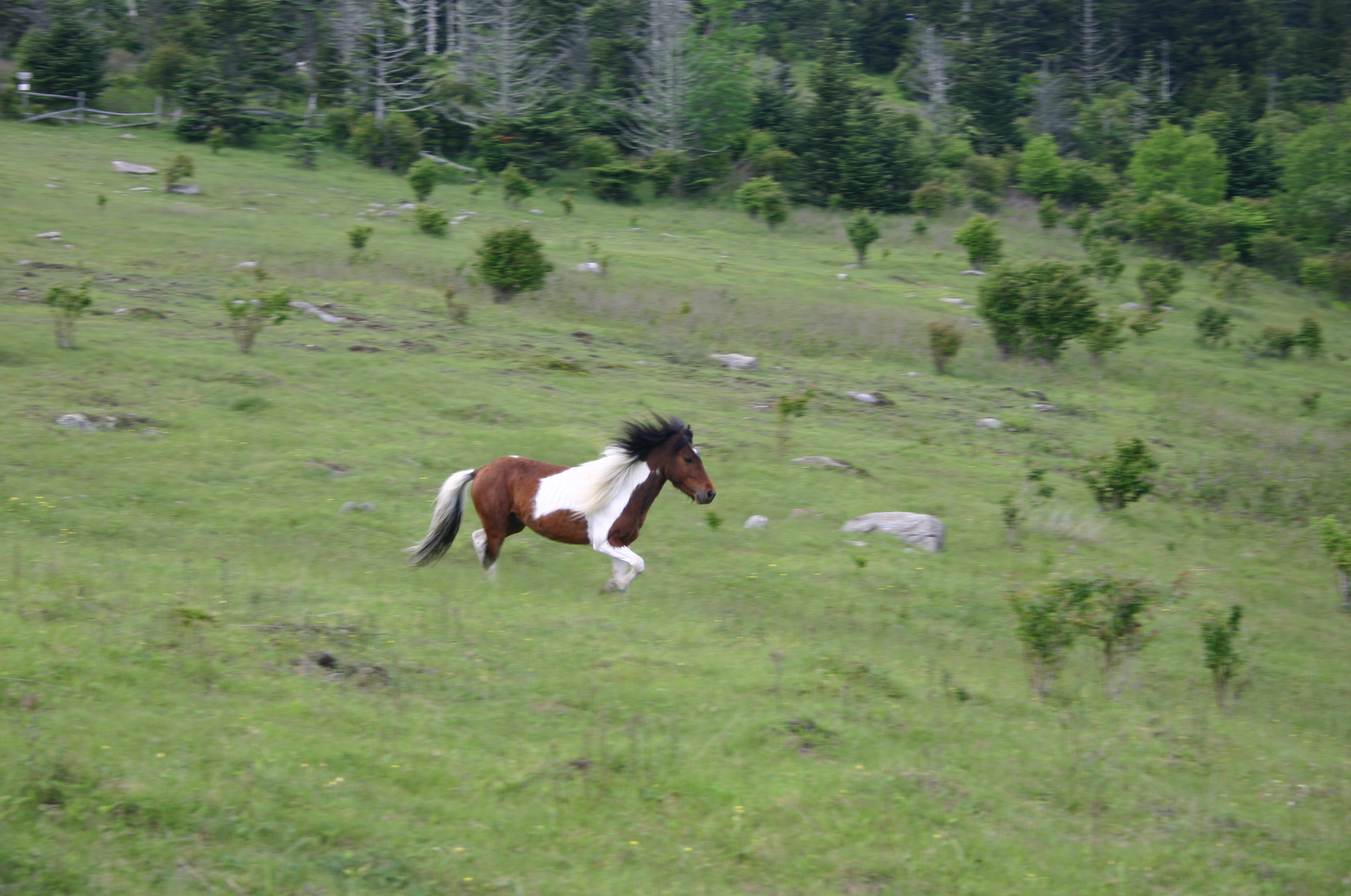 A wild pony in Mount Rogers National Recreation Area, Virginia. Taken June 6-7, 2009.